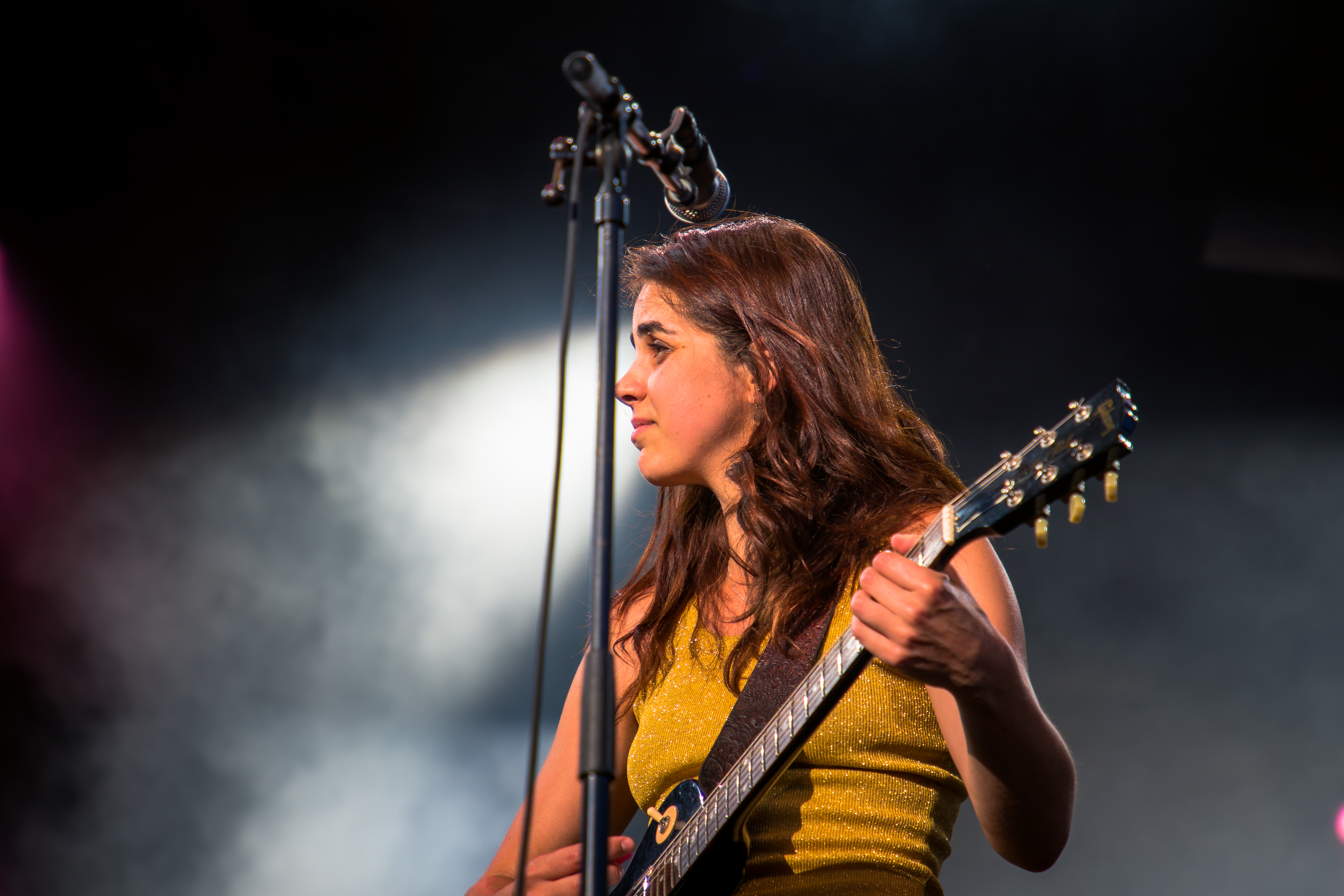 Amanda Werne (Slowgold), Live Liseberg, Gothenburg, Sweden, 2018-06-29